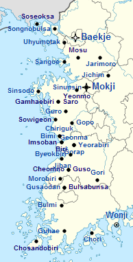 Map of the states of the Mahan confederacy